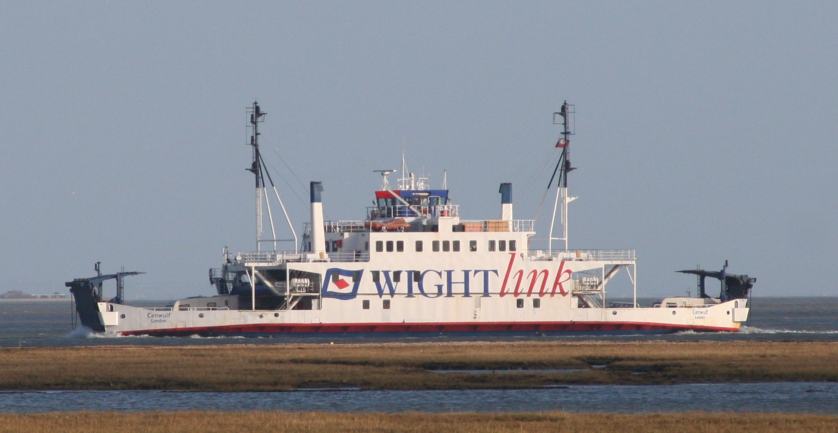 The Wightlink ferry Cenwulf, operating between Lymington and Yarmouth, Isle of Wight.